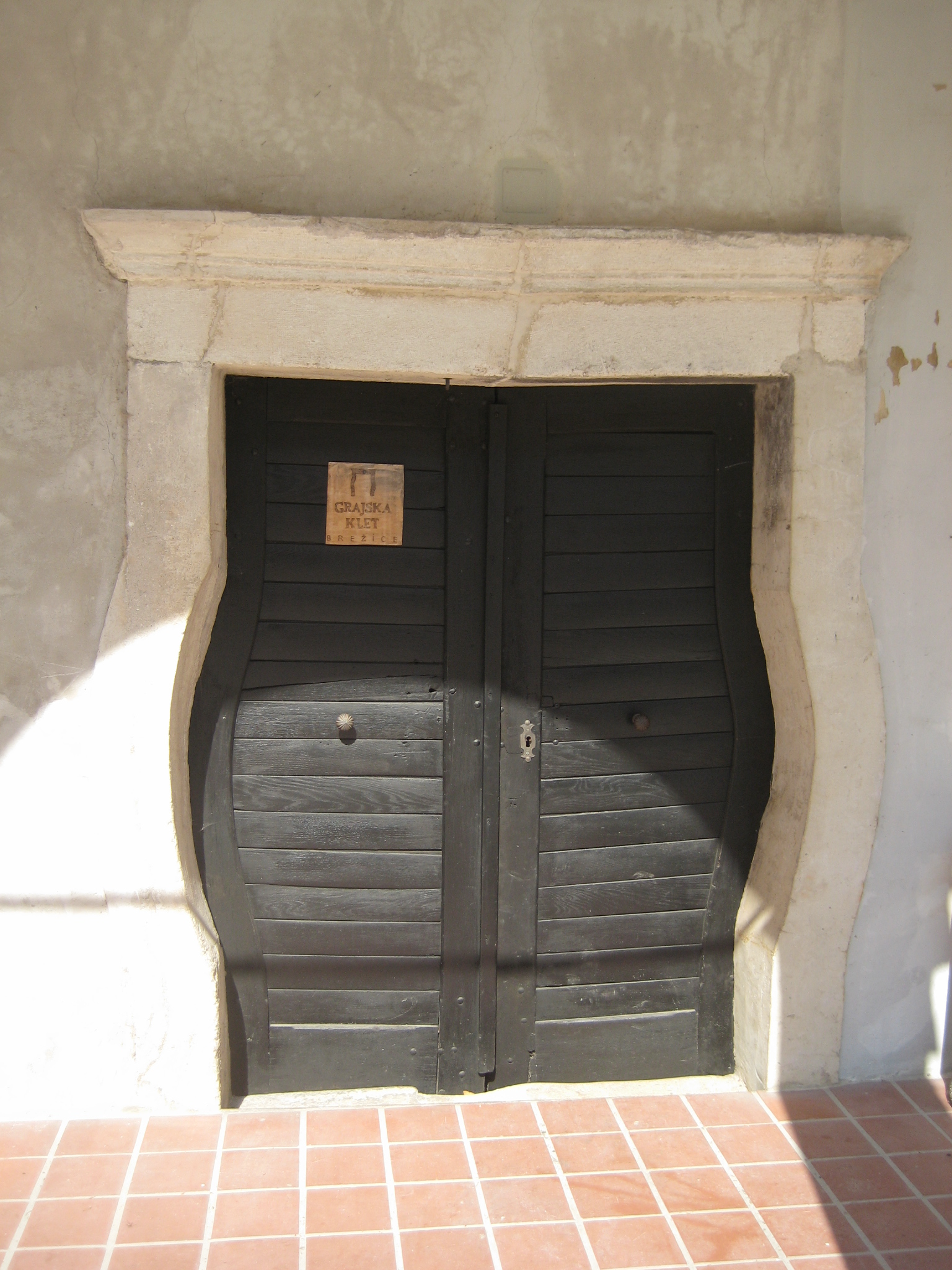 Brežice castle, Slovenia